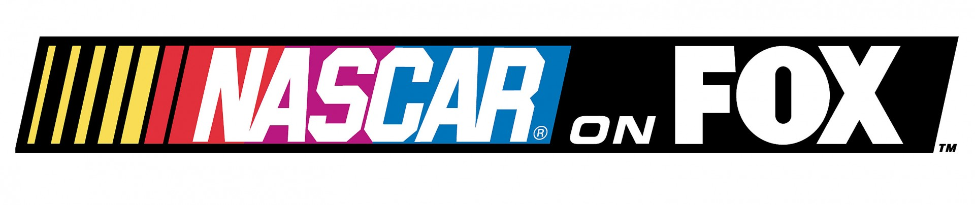 NASCAR On FOX Logo